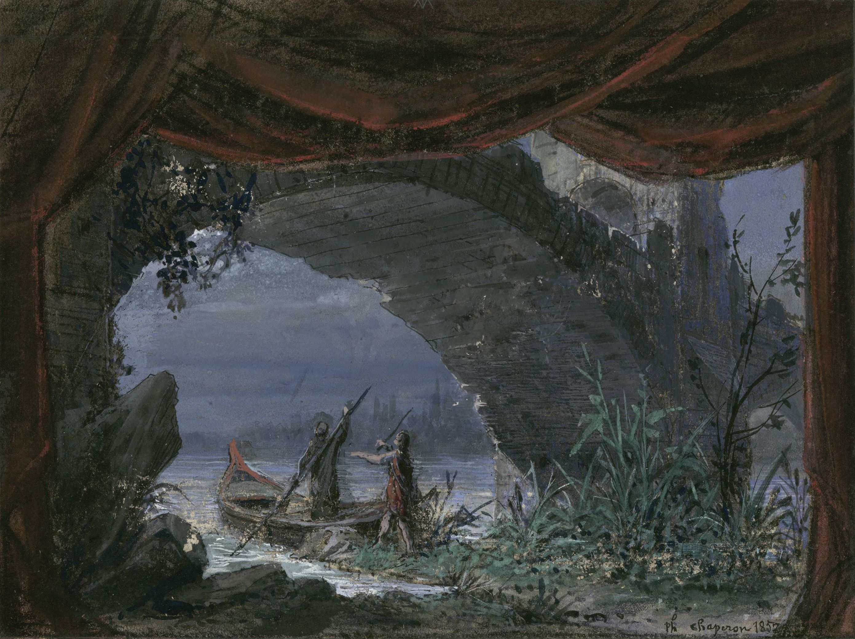 Set design by Philippe Chaperon for Act 3 scene 2 of Gounod's opera Mireille.